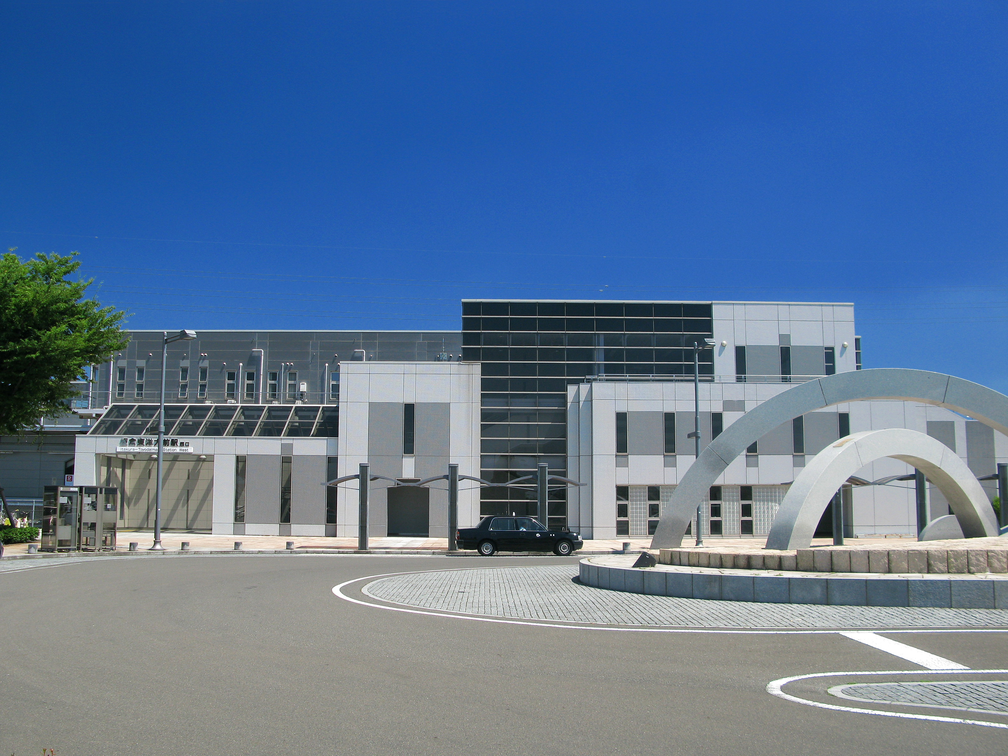 West entrance of Itakura Tōyōdai-mae Station on the Tobu Nikko Line